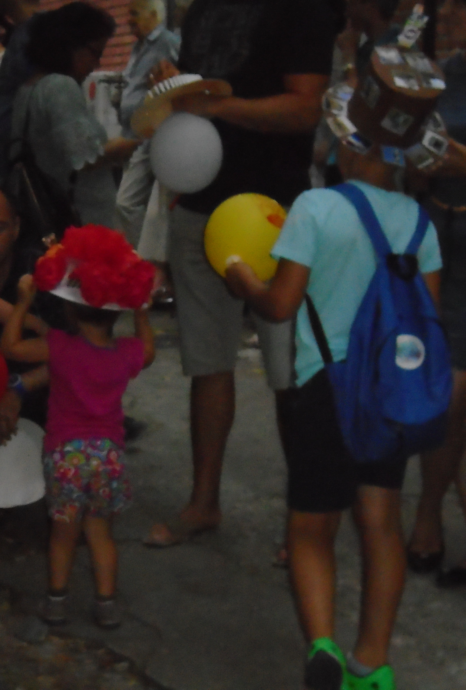 Hat fest in Skadarlija, Belgrade, Serbia, July 2017